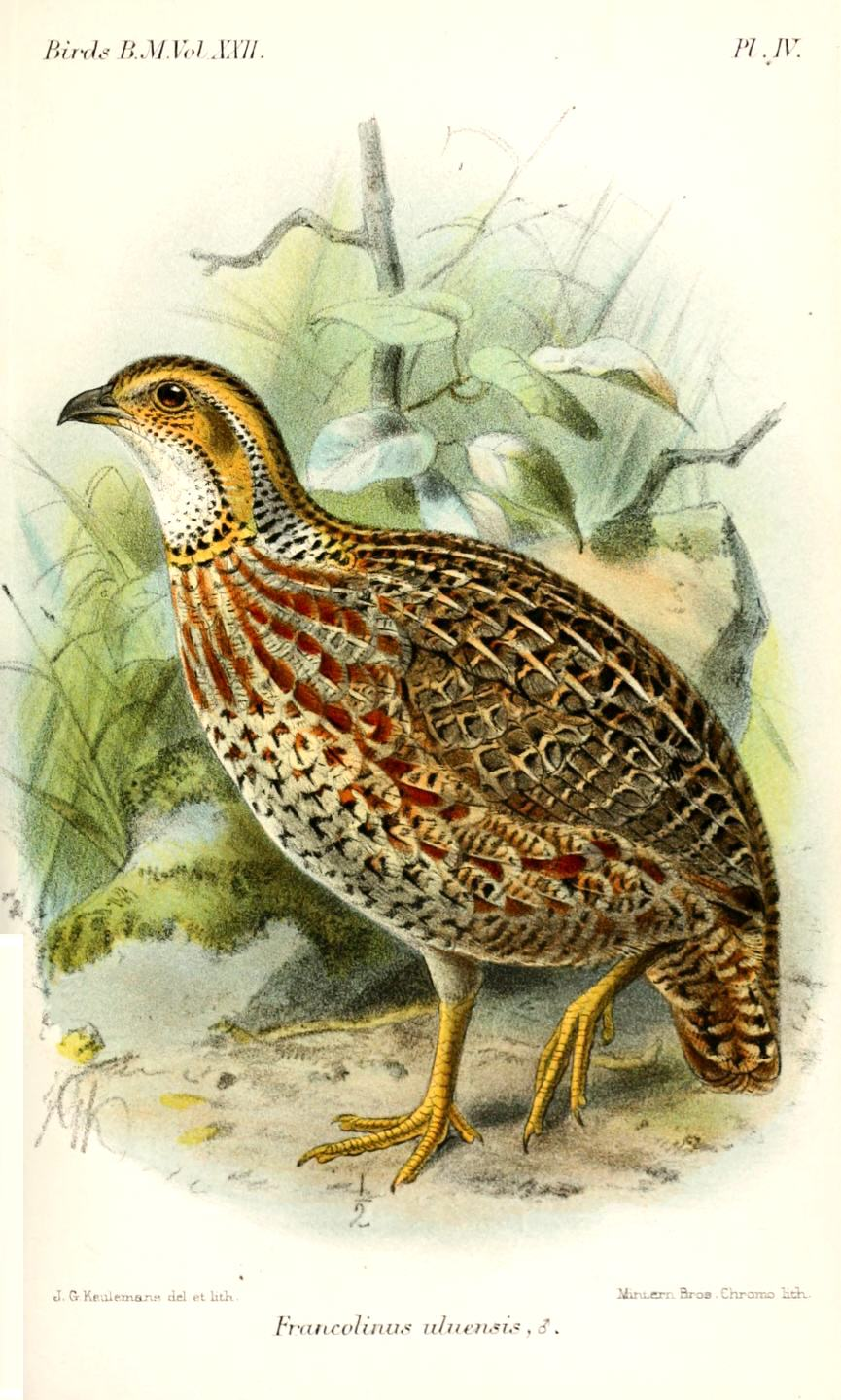 Francolinus uluensis = Scleroptila shelleyi uluensis, Shelley's Francolin ssp.